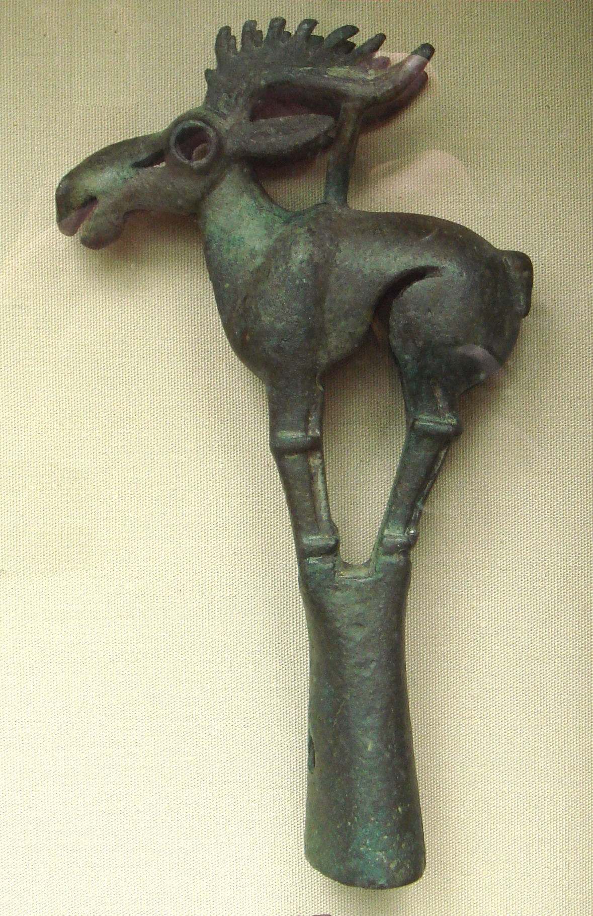 Bronze Pole Top Ordos 6th-5th Century BCE